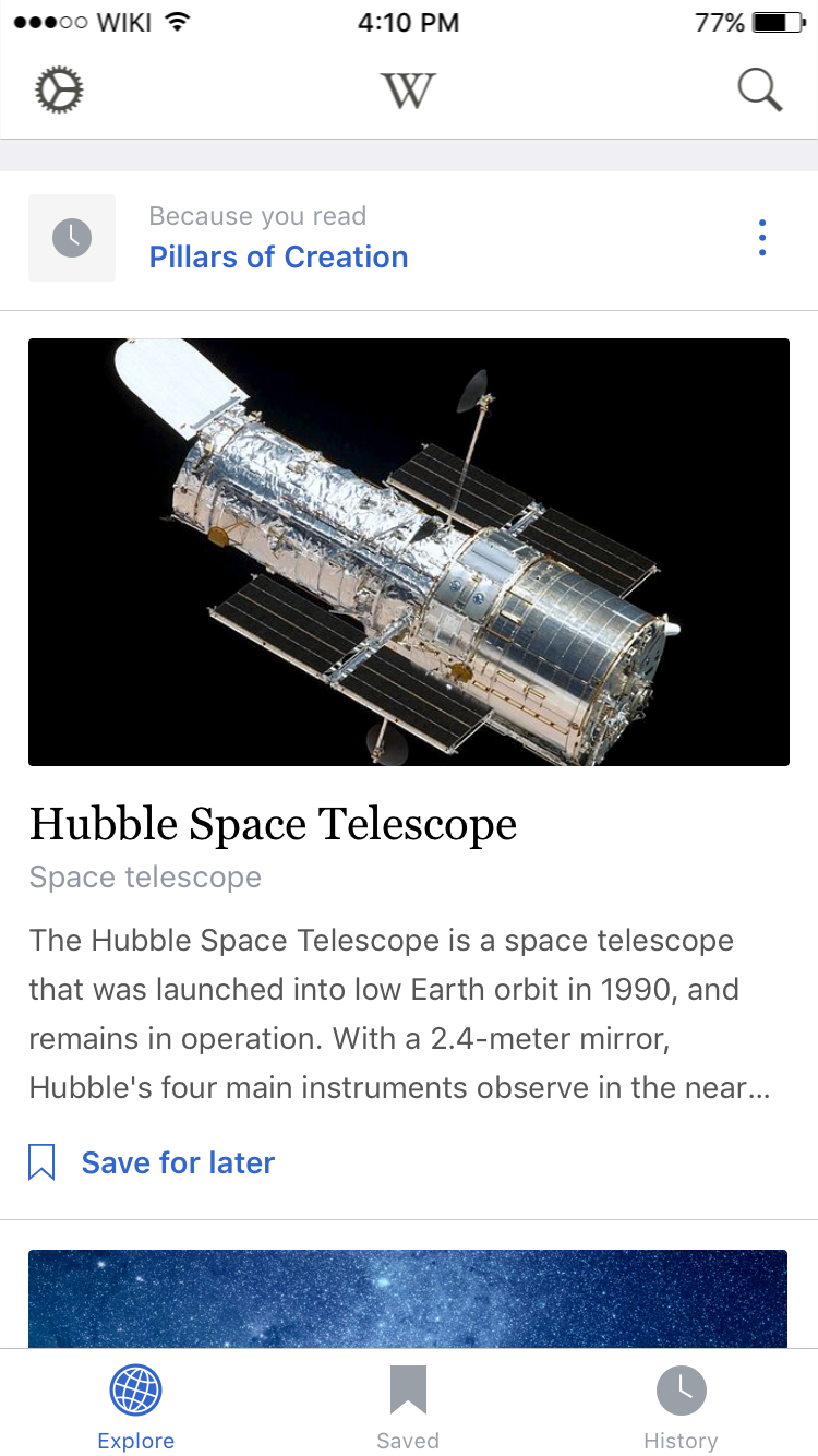 Wikipedia iOS Explore screen. Application made by Wikimedia Foundation. Article shown in the screen is